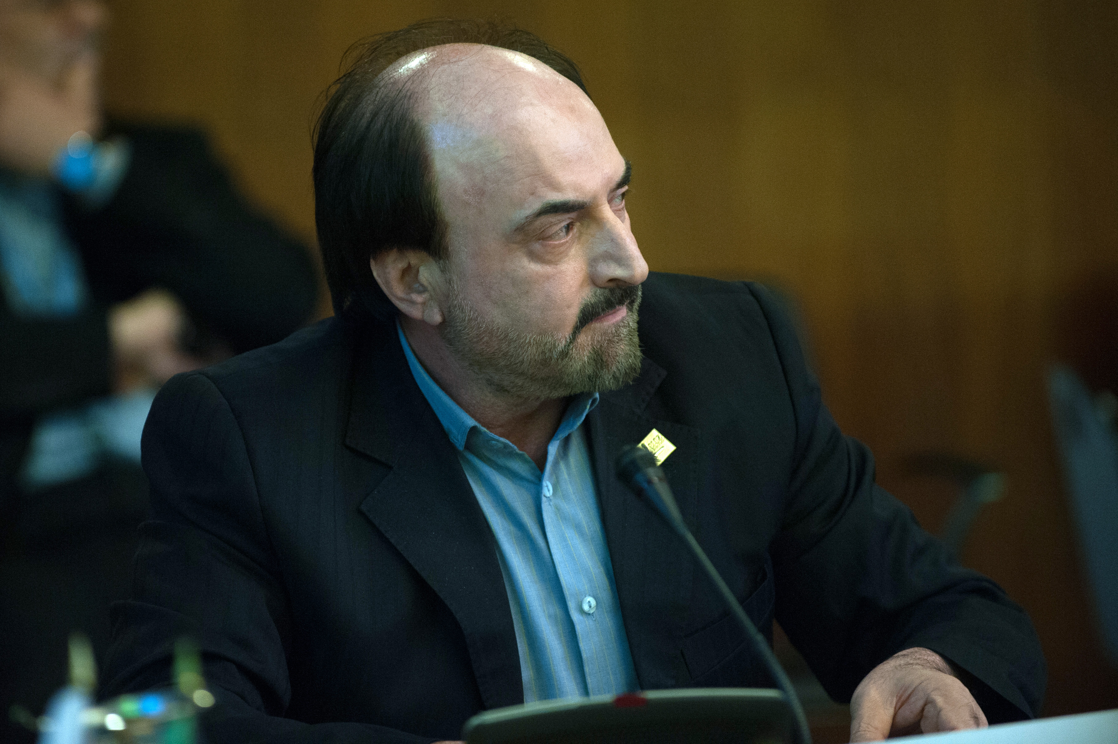 H.E. Dr Mohammad Hassan Nami, Minister, Ministry of Information and Communication Technology, Iran (Republic of) WSIS+10: Future of the Information Society and Challenges to Address beyond 2015 14 May 2013 ITU/ J.M. Planche